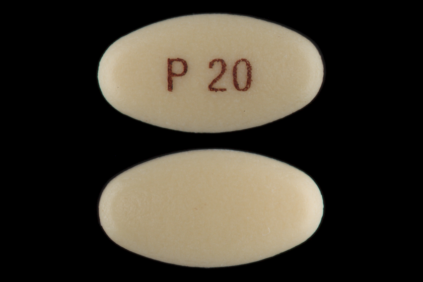 Drug Name: Pantoprazole 20 MG (pantoprazole sodium sesquihydrate 22.6 MG) Delayed ReleaseTablet Ingredient(s): Pantoprazole Drug Label Imprint: P;20 Color(s): Yellow Shape: Oval Size (mm): 9.00 Score: 1 Inactive Ingredient(s): ShowHide calcium stearate / crospovidone / ferric oxide yel... calcium stearate / crospovidone / ferric oxide yellow / mannitol / methacrylic acid - ethyl acrylate copolymer (1:1) type a / polysorbate 80 / povidone k25 / povidone k90 / propylene glycol / sodium carbonate / sodium lauryl sulfate / titanium dioxide / triethyl citrate / hypromellose 2208 (100 mpa.s) Drug Label Author: Wyeth Pharmaceuticals Company, a subsidiary of Pfizer Inc. DEA Schedule: Non-scheduled